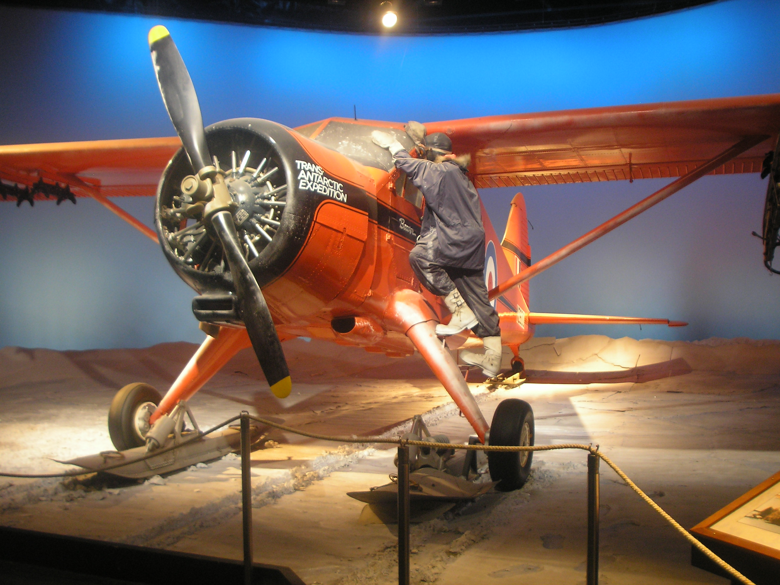 deHavilland Canada DHC-2 Beaver aircraft of the Royal New Zealand Air Force shown in colours of an example operating out of the Ross Dependency accompanying Sir Edmund Hillary during the Commonwealth Trans-Antarctic Expedition in the mid 1950s. It is displayed with a range of Antarctic equipment an an RNZAF Auster aircraft also used on the expedition. Photographed by the author in the RNZAF Museum at Wigram in 2008